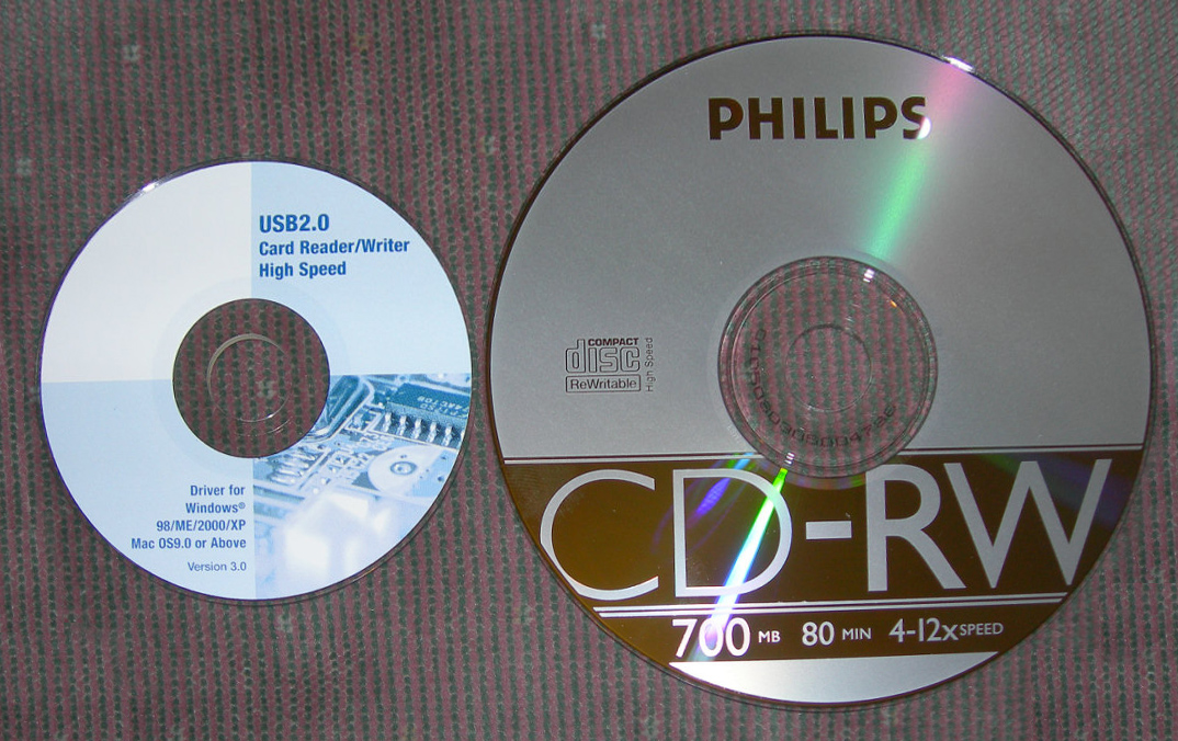 A comparison between an 80mm mini CD and a 120mm standard CD. Taken by EddieBernard, 24th July 2006.